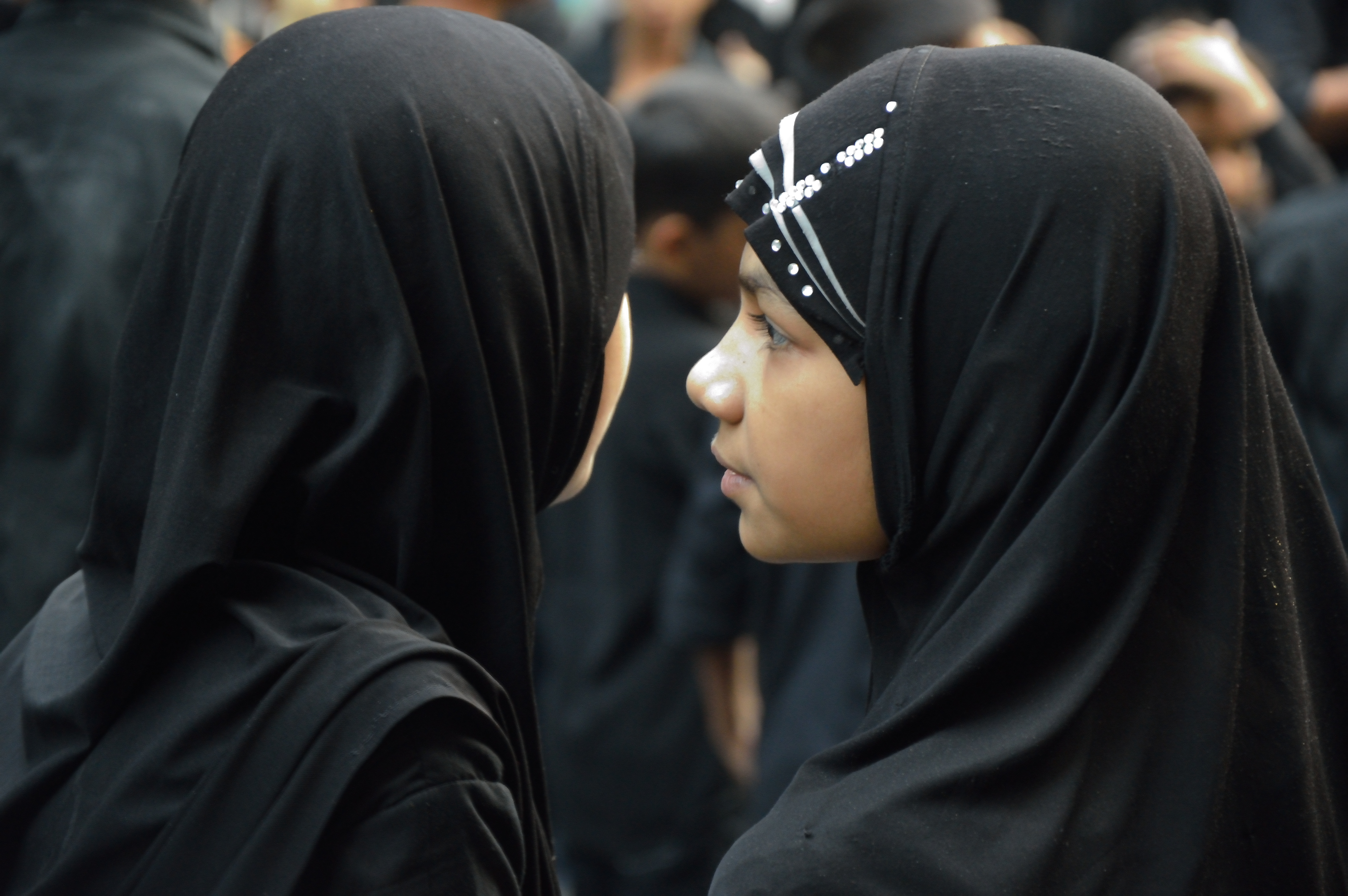 Photographed during the Mourning of Muharram in Kolkata.